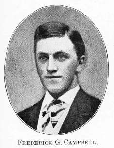 Frederick George Campbell, one of six Founders of Phi Sigma Kappa fraternity, at his graduation in 1875. Low-res version. For use in the article of his name.